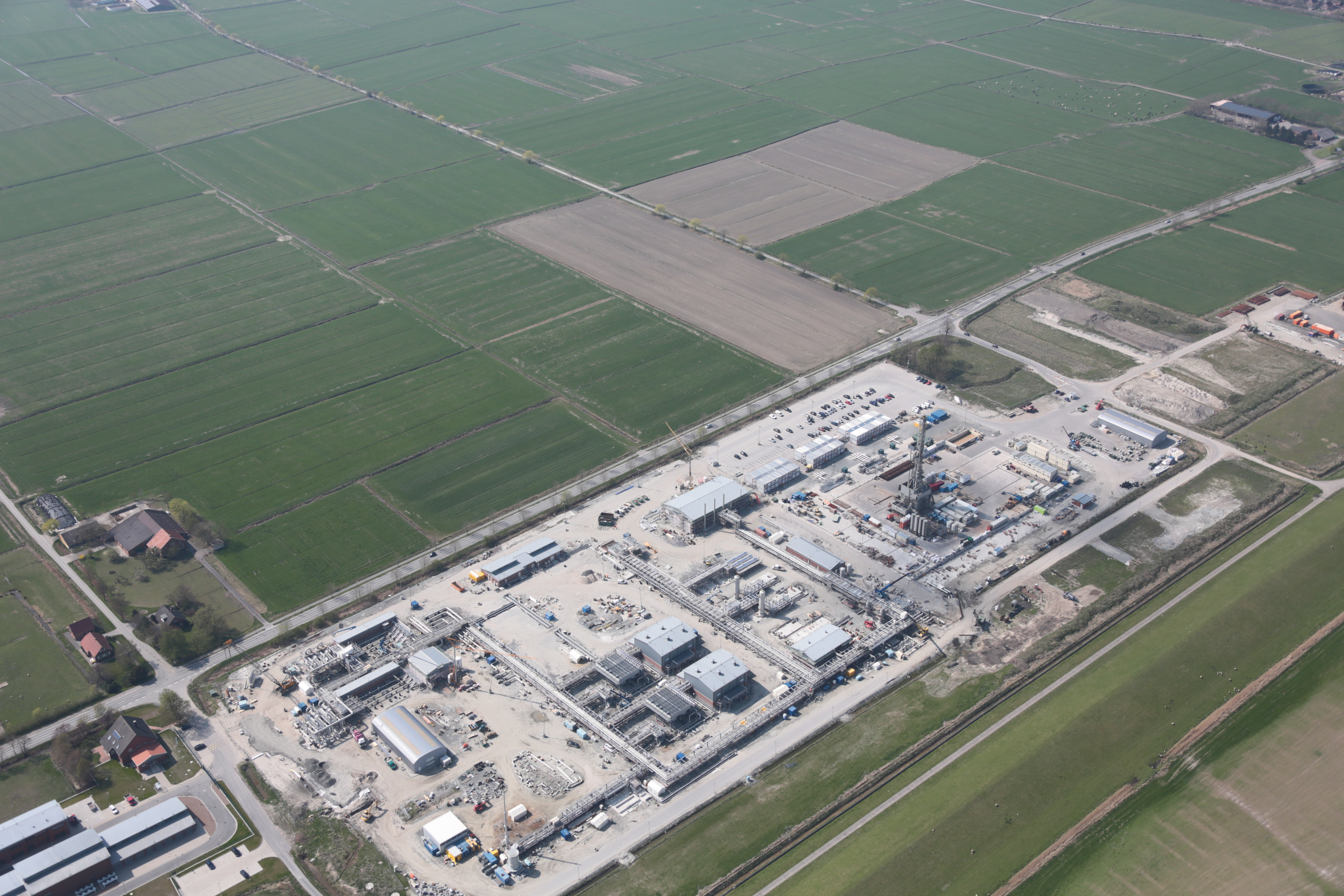 Fotoflug von Nordholz-Spieka nach Oldenburg und Papenburg This photo was taken by Alchemist-hp. If you use one of my photos, an email (account needed) or a message or direct to: my email account would be greatly appreciated. Please note the license terms. Other licensing terms can get discussed, too. This file is copyrighted and has been released under a license which is incompatible with Facebook's licensing terms. It is not permitted to upload this file to Facebook.